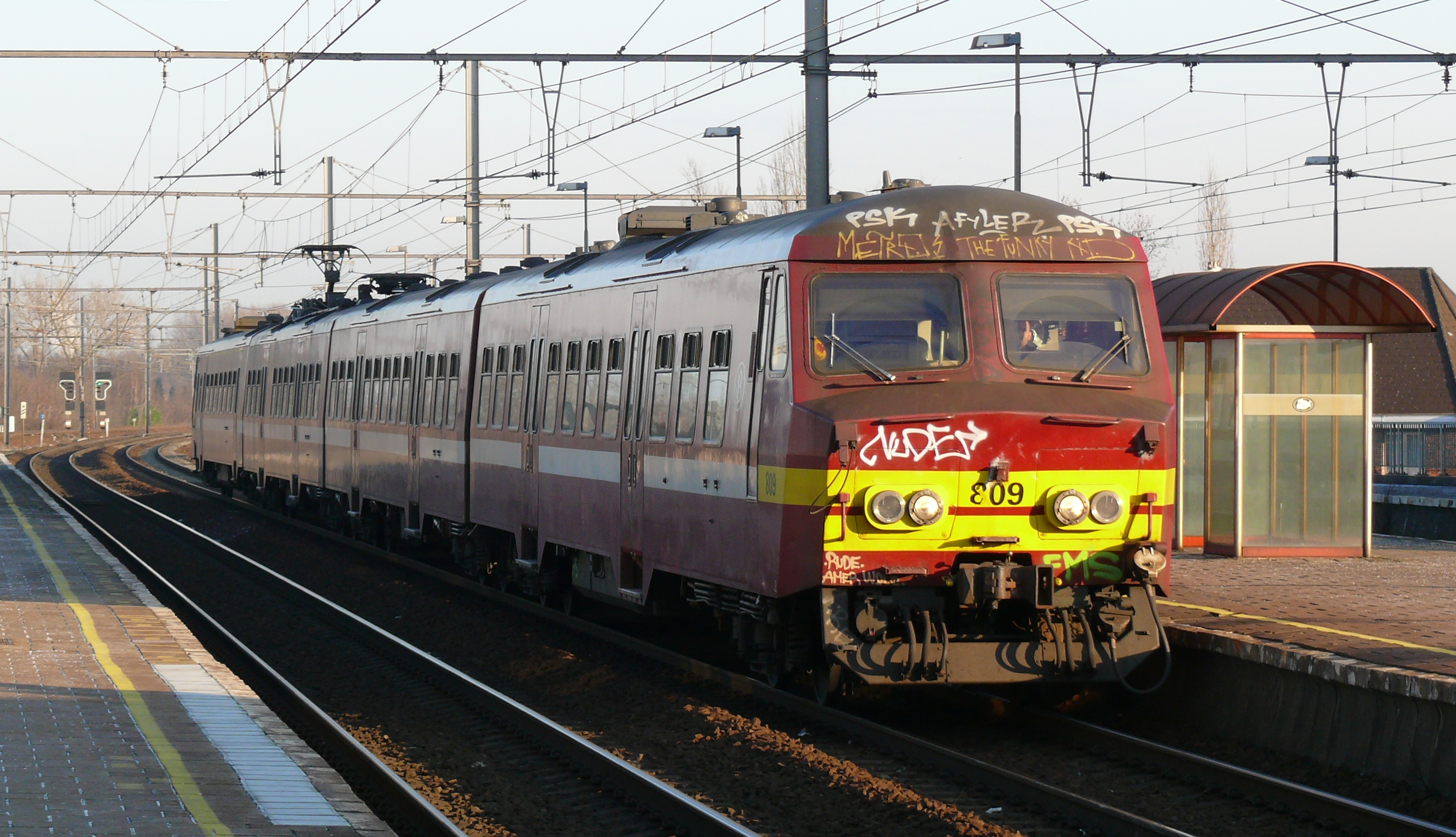 NMBS 809 (type MS75) arriving at platform 4, direction Brussels, in the station Mechelen Nekkerspoel